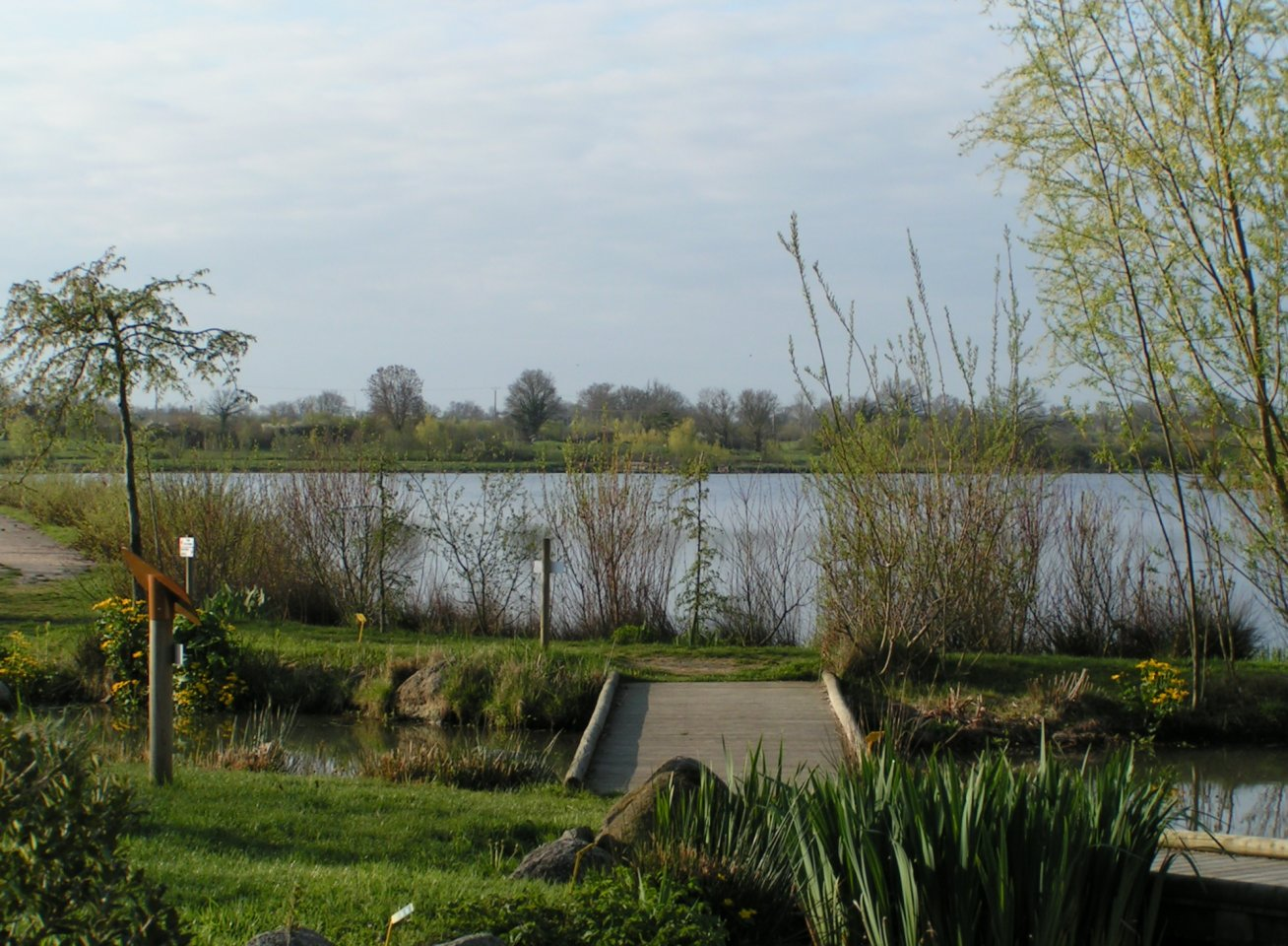 View of Pescalis, an angling resort, in Moncoutant, Deux-Sèvres, France